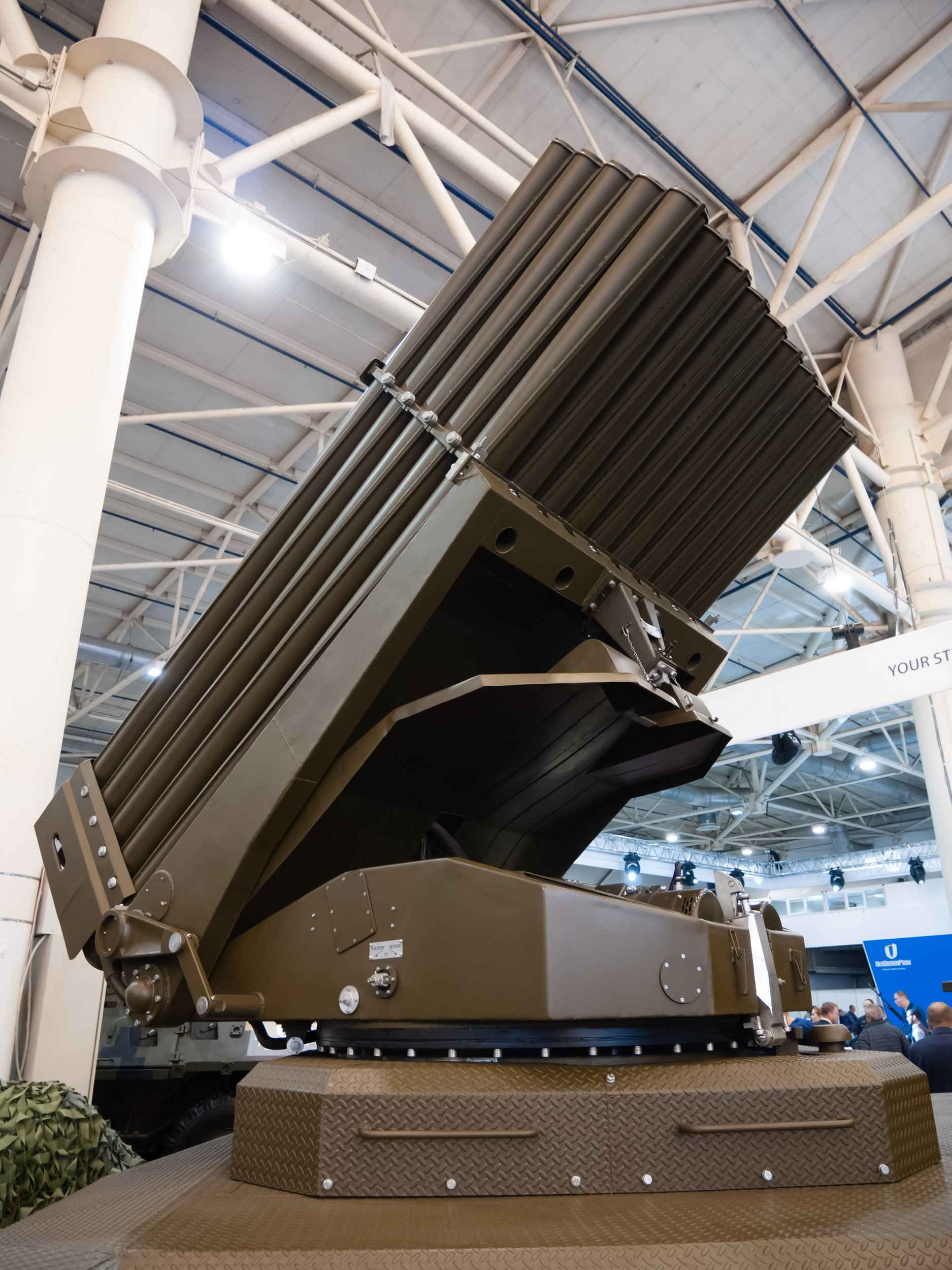 BM-21UM Berest Ukrainian MRLS, 'Zbroya ta Bezpeka' military fair, Kyiv, Ukraine, 2018